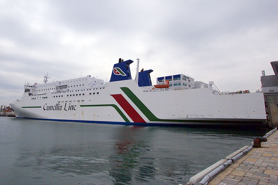 international ferry New Camellia at Hakata port. IMO number: 9304497 Callsign: JG5720